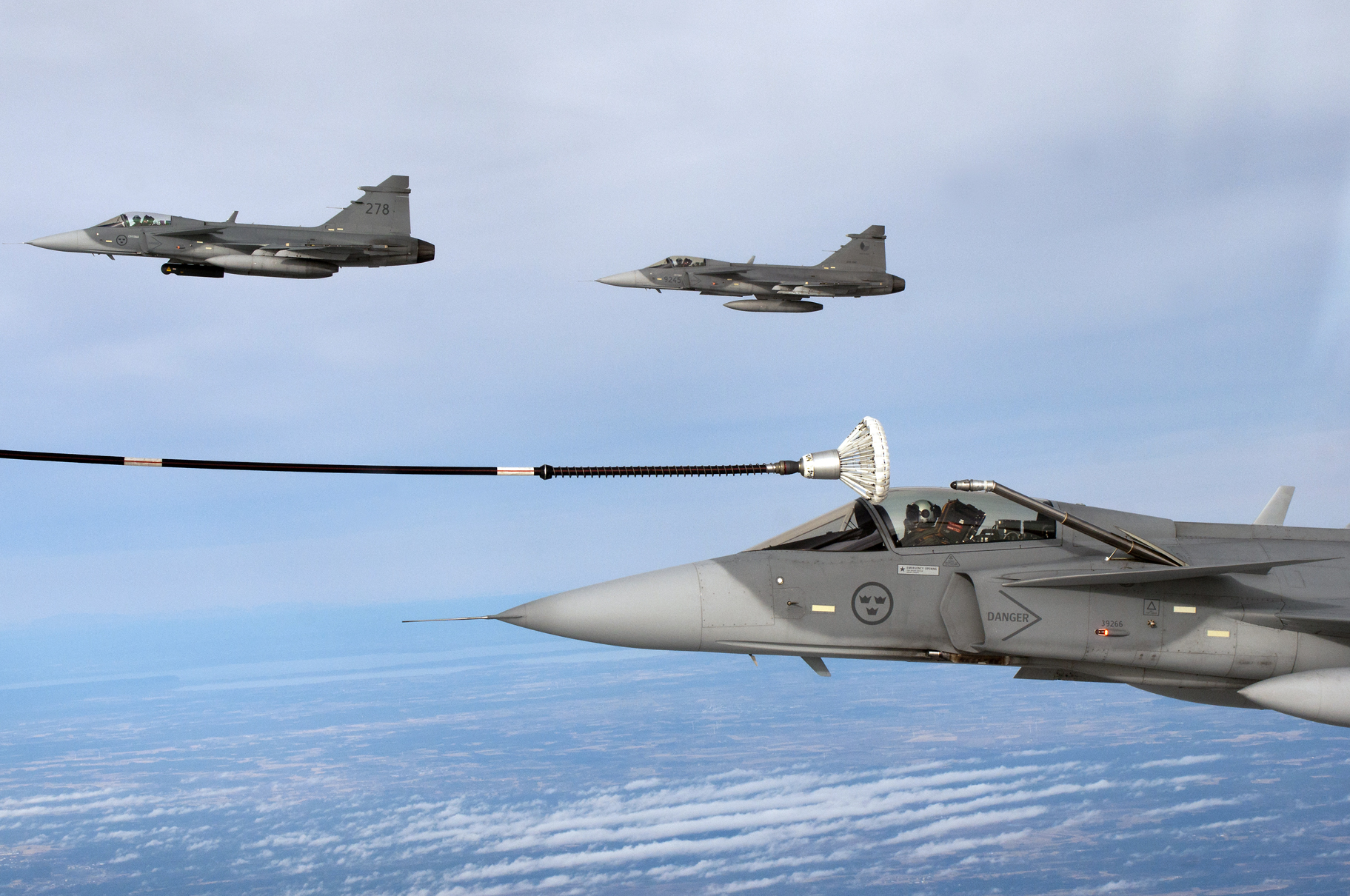 Saab JAS-39 of the Swedish Air Force undergoing inflight refuelling from a TP 84 Hercules